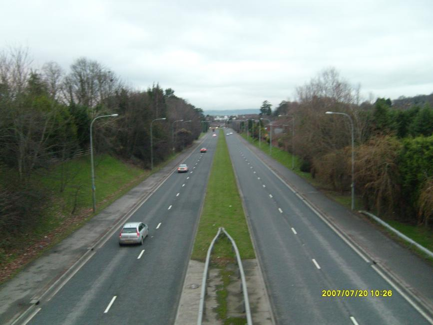 A55 Baile Uí Mheacháin, Béal Feirste, Condae an Dúin (radharc ó thuaidh).